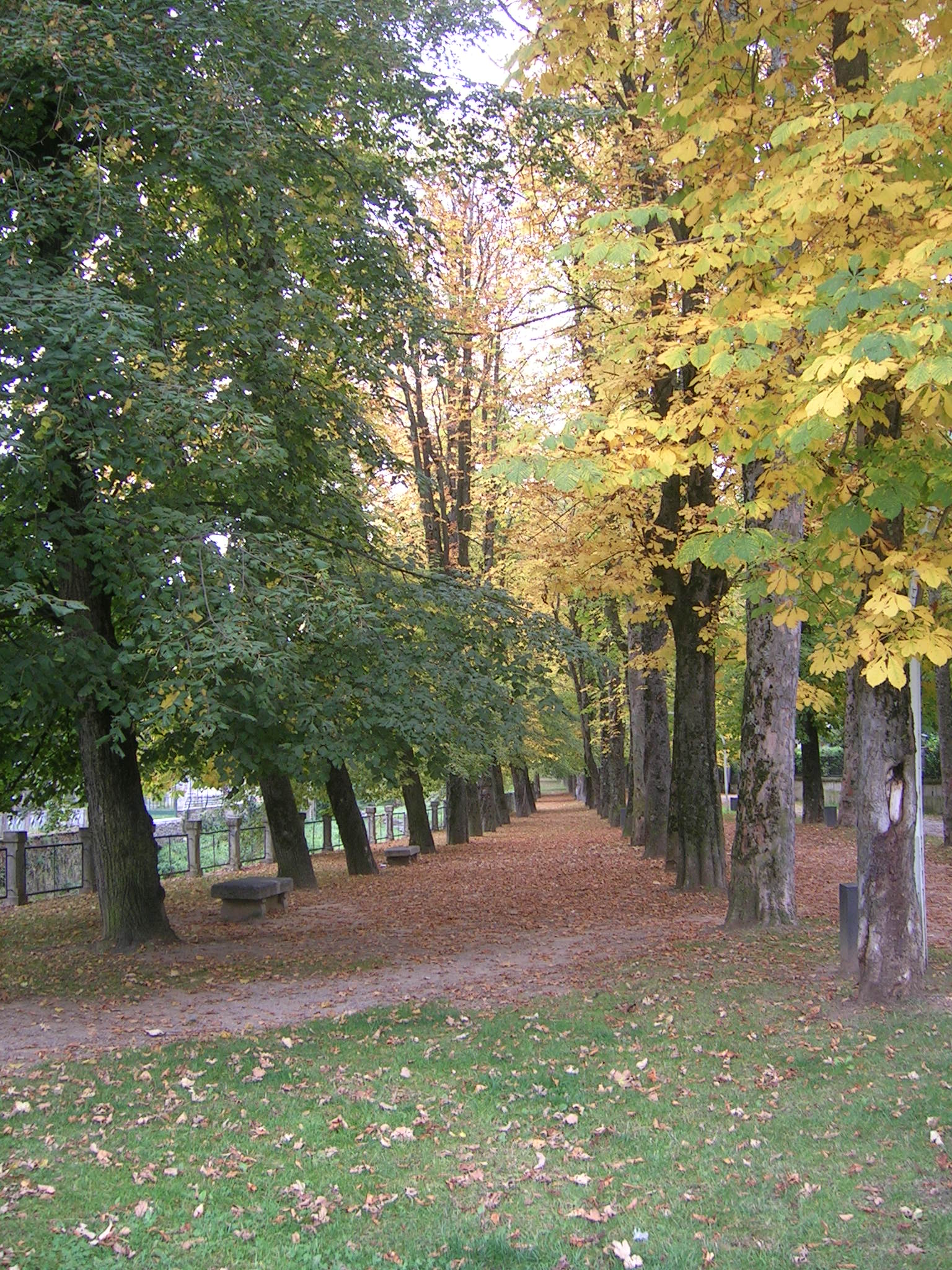 Passeig de la Font Nova, Camprodon, Catalonia.